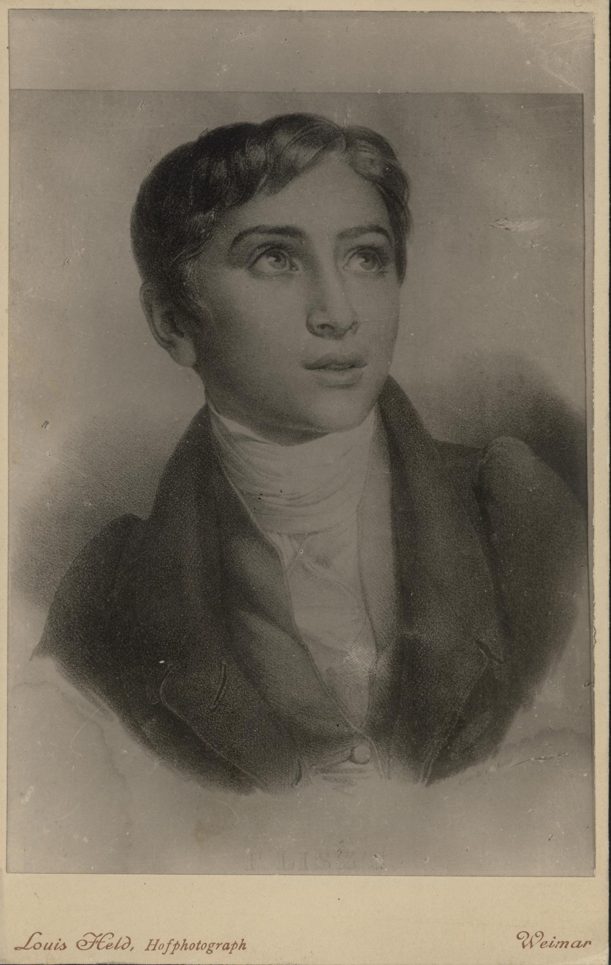 Artist: Louis Held Date/place: ca. 1827, unknown location Subject: the young Franz Liszt Medium: lithographic art card Notes: gift from Johanne Margrethe Bull Persistent URL: [#//nettbiblioteket.no/grieg-samlingen/engelsk/grieg_intro_eng.html” Original belongs to the Edvard Grieg Archives at Bergen Public Library]